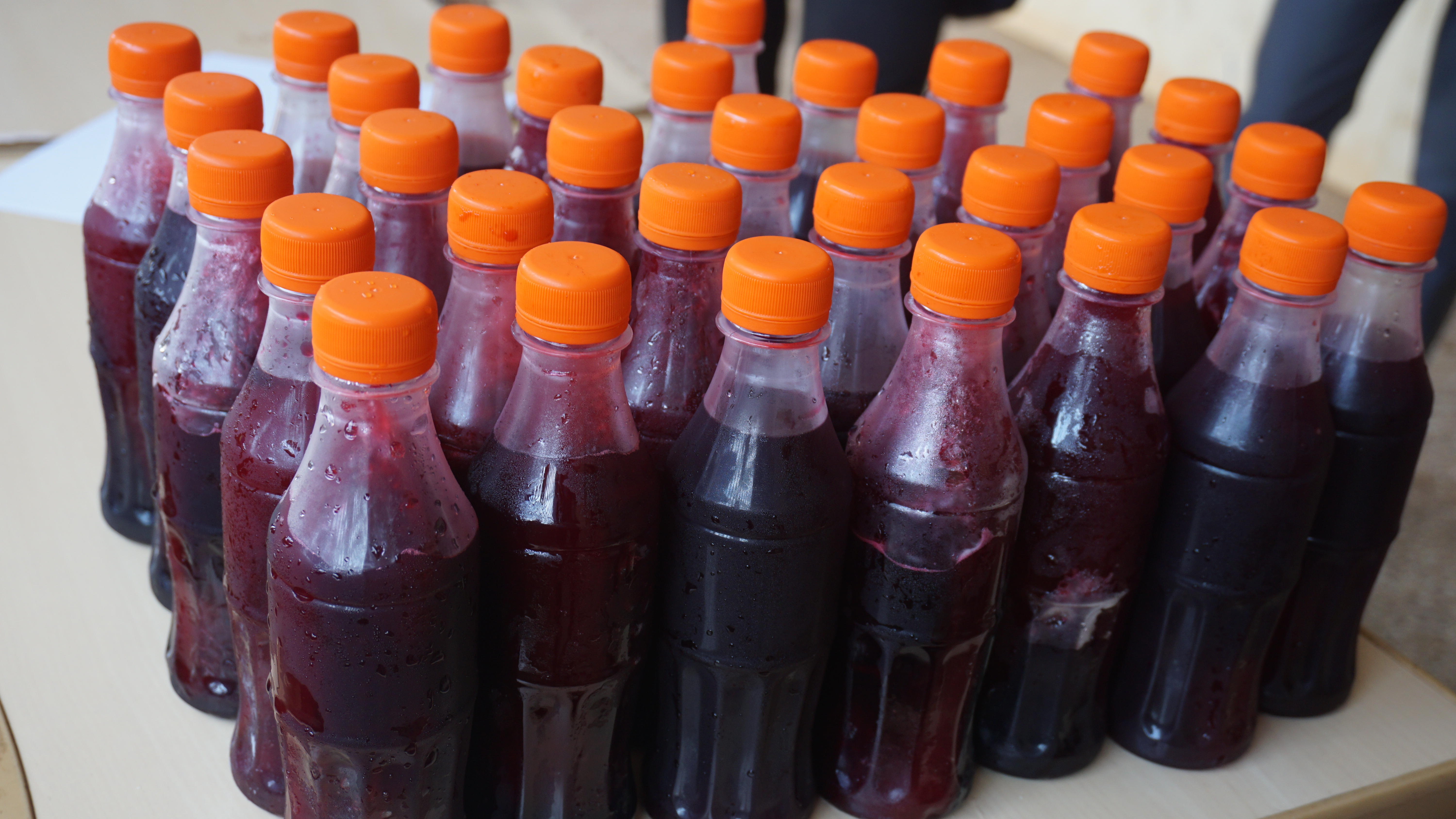 An african drink made with bisap.